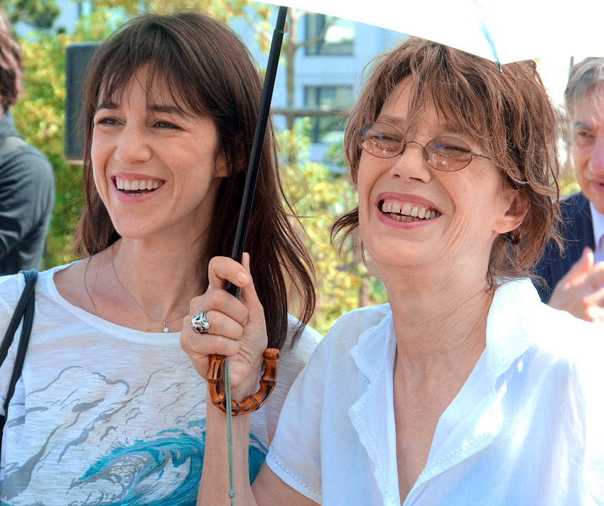 Jane Birkin and Charlotte Gainsbourg at the inauguration of the Jardin Serge Gainsbourg in Paris